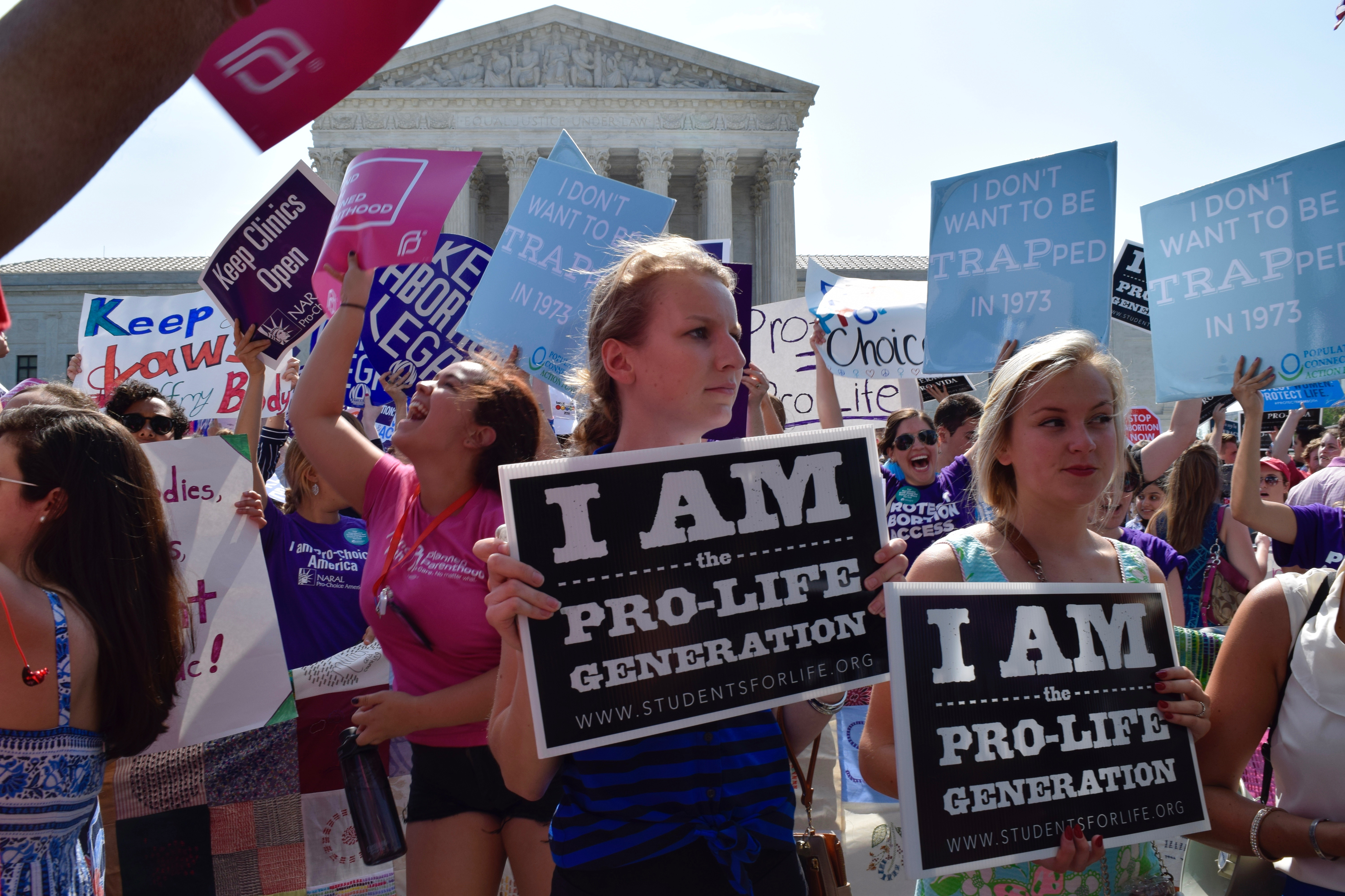 Whole Woman's Health v. Hellerstedt Pro-choice demonstration in front of SCOTUS.